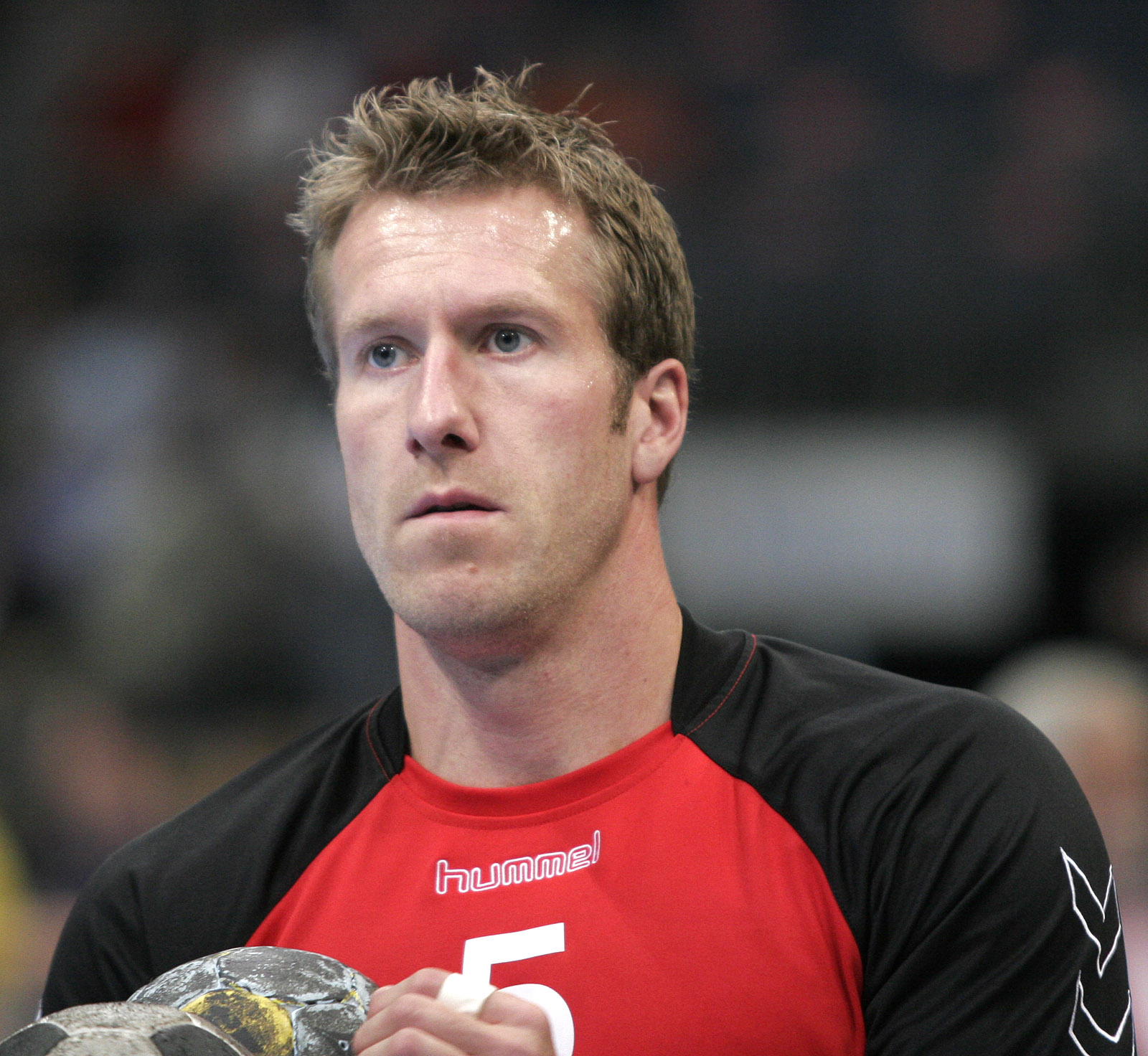 Kasper Nielsen, handball player of SG Flensburg-Handewitt, in the Kölnarena prior the gane VfL Gummersbach - SG Flensburg-Handewitt